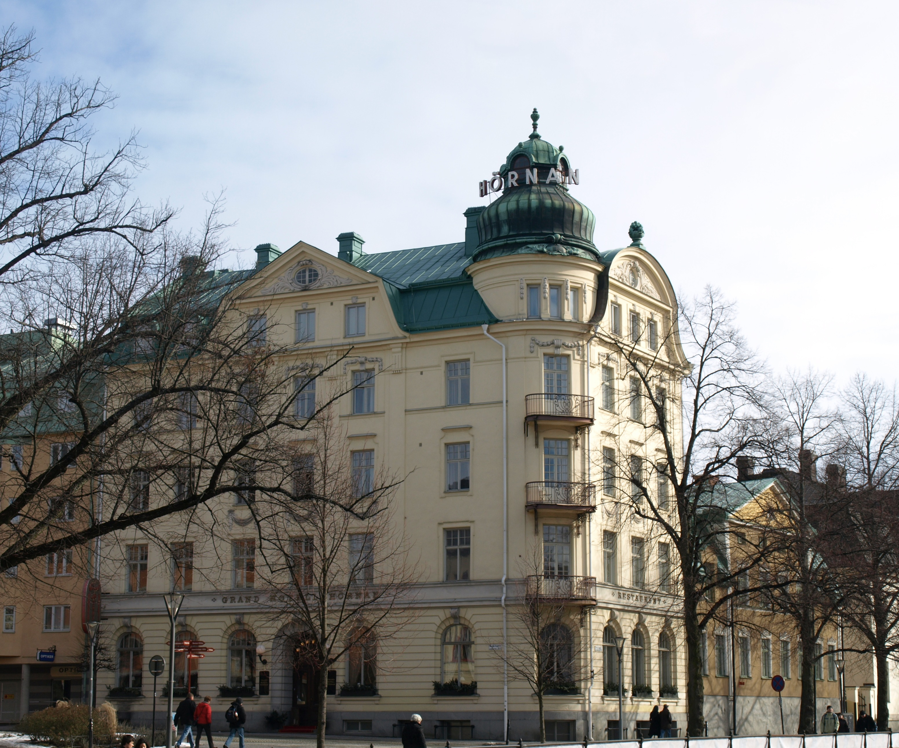 Grand Hotell Hörnan, Uppsala, Sweden